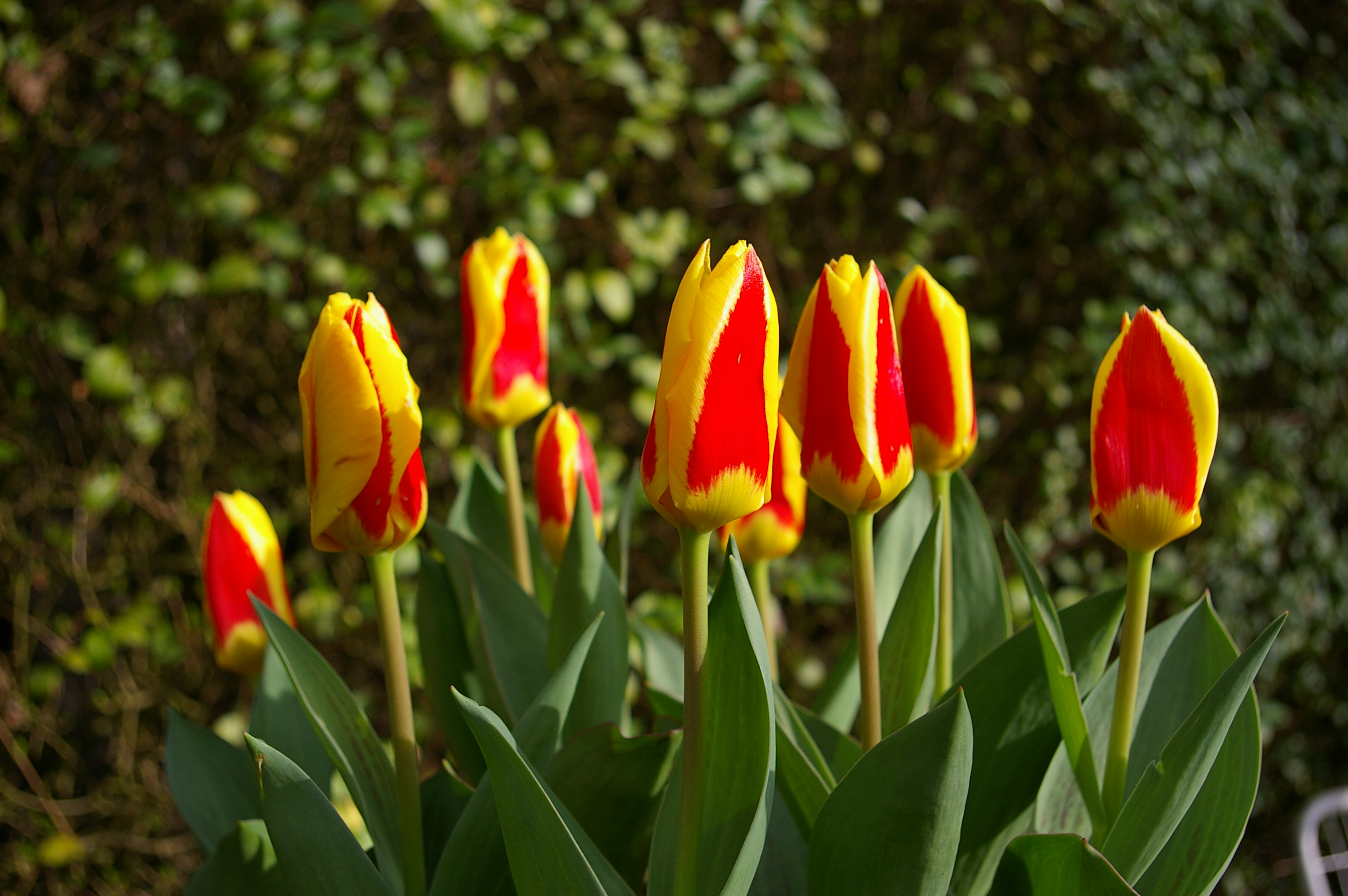 The Tulip 'Stresa', 'Tulipa Kaufmanniana', produces yellow and red flowers. The plant is native to Turkestan and is one of earliest to flower. The flowers are on short stems and open fully in sunlight.